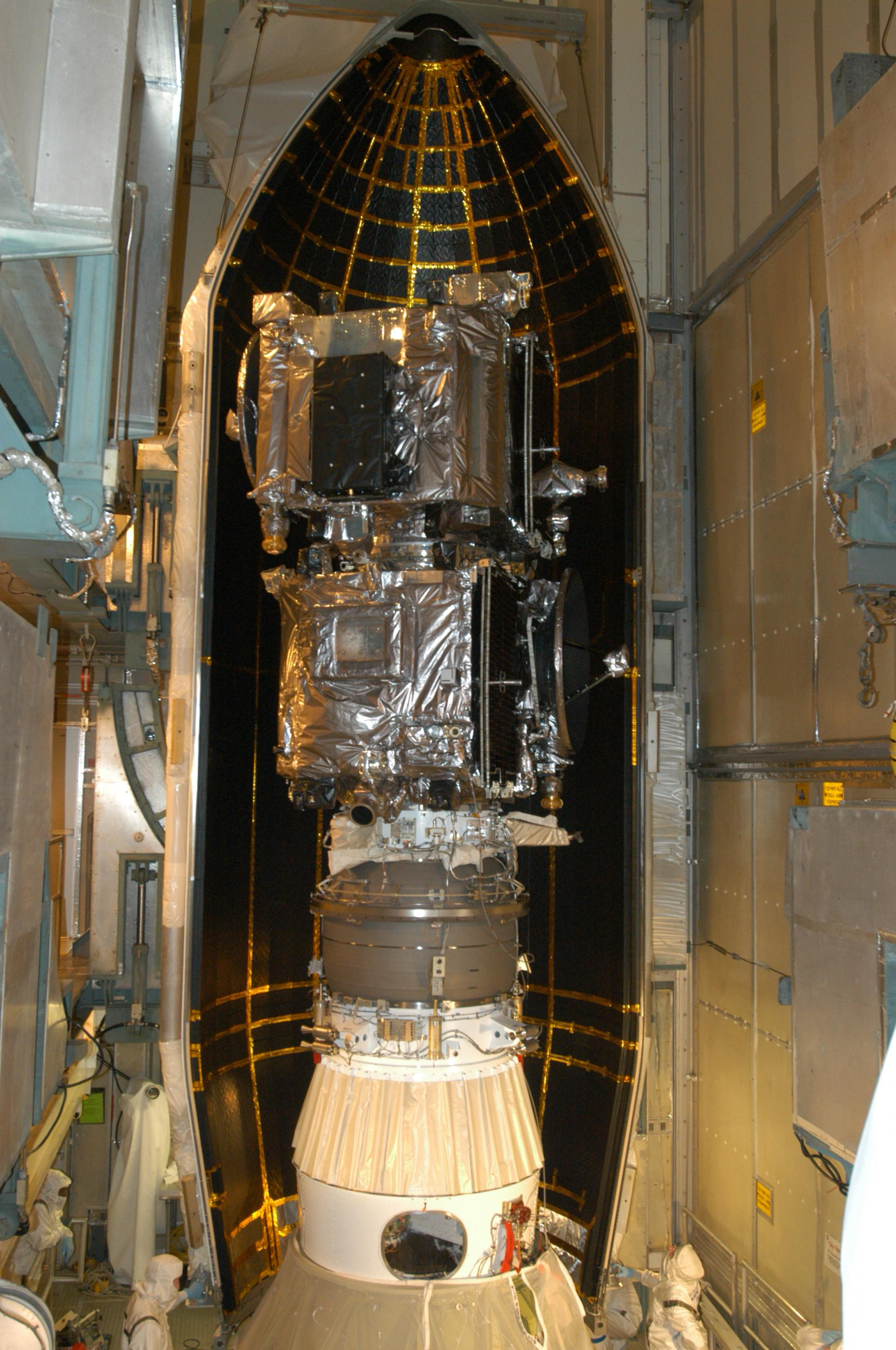 KENNEDY SPACE CENTER, FLA. – Inside the mobile service tower on Launch Pad 17-B at Cape Canaveral Air Force Station, the first half of the fairing is moved into place around the STEREO spacecraft. The fairing is a molded structure that fits flush with the outside surface of the Delta II upper stage booster and forms an aerodynamically smooth nose cone, protecting the spacecraft during launch and ascent. The STEREO (Solar Terrestrial Relations Observatory) mission is the first to take measurements of the sun and solar wind in 3-dimension. This new view will improve our understanding of space weather and its impact on the Earth. Designed and built by the Applied Physics Laboratory (APL) , the STEREO mission is being managed by NASA Goddard Space Flight Center. APL will maintain command and control of the observatories throughout the mission, while NASA tracks and receives the data, determines the orbit of the satellites, and coordinates the science results. STEREO is expected to lift off Oct. 25.